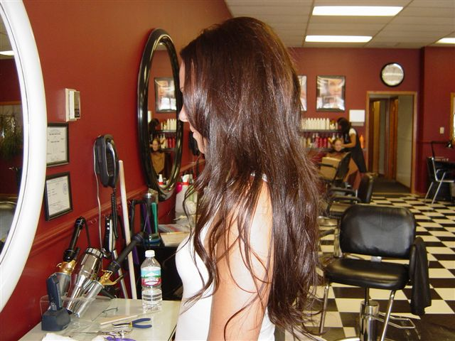 A girl with natural brown hair.